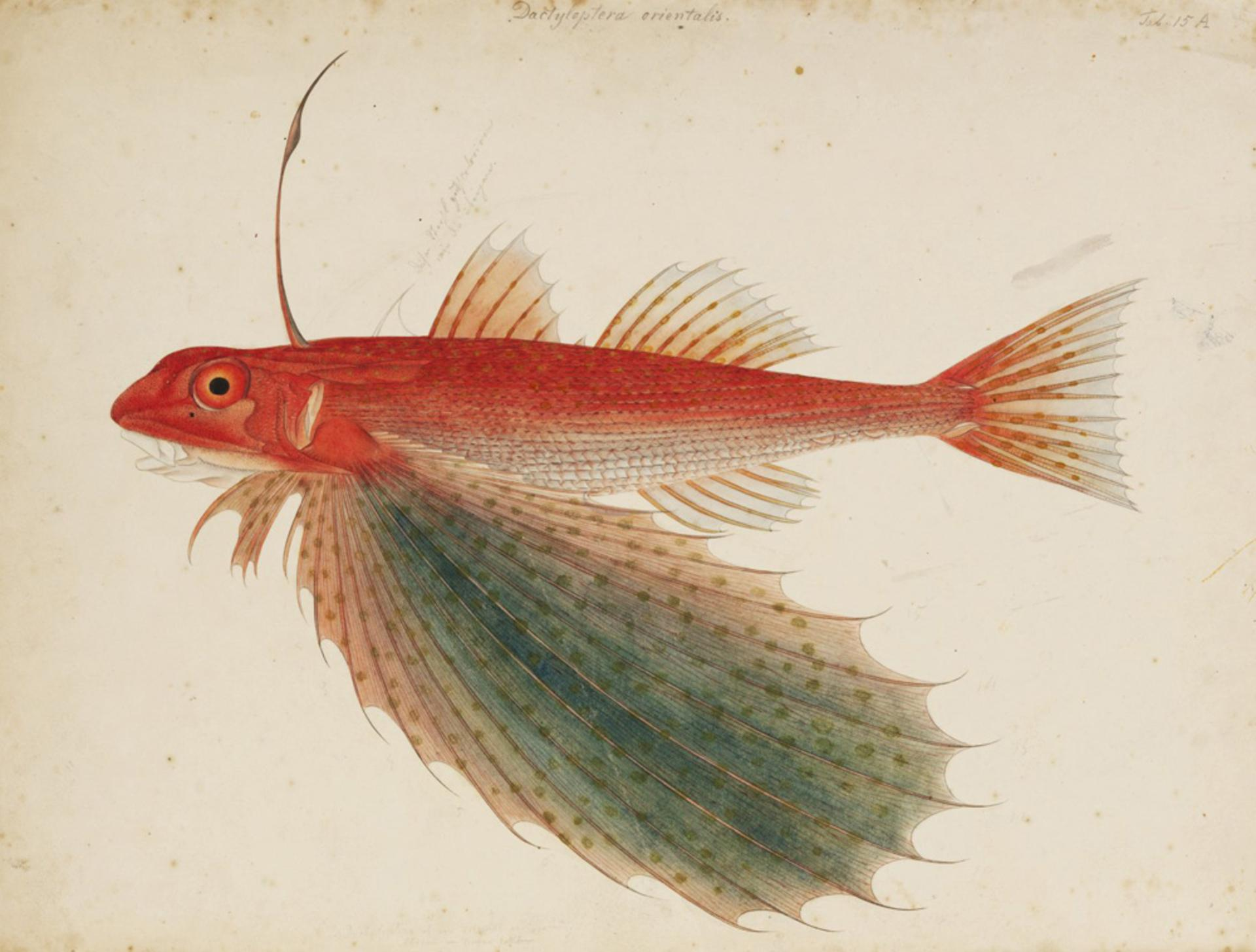 Dactyloptena orientalis (Cuvier)